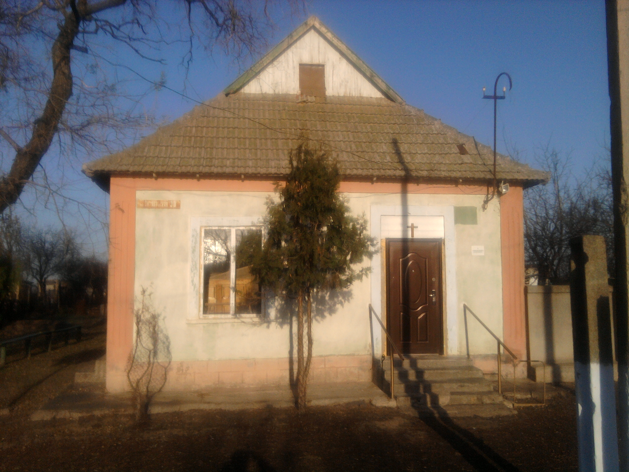 Baptist church in Kosivka, Bilhorod-Dnistrovskyi Raion, Ukraine.